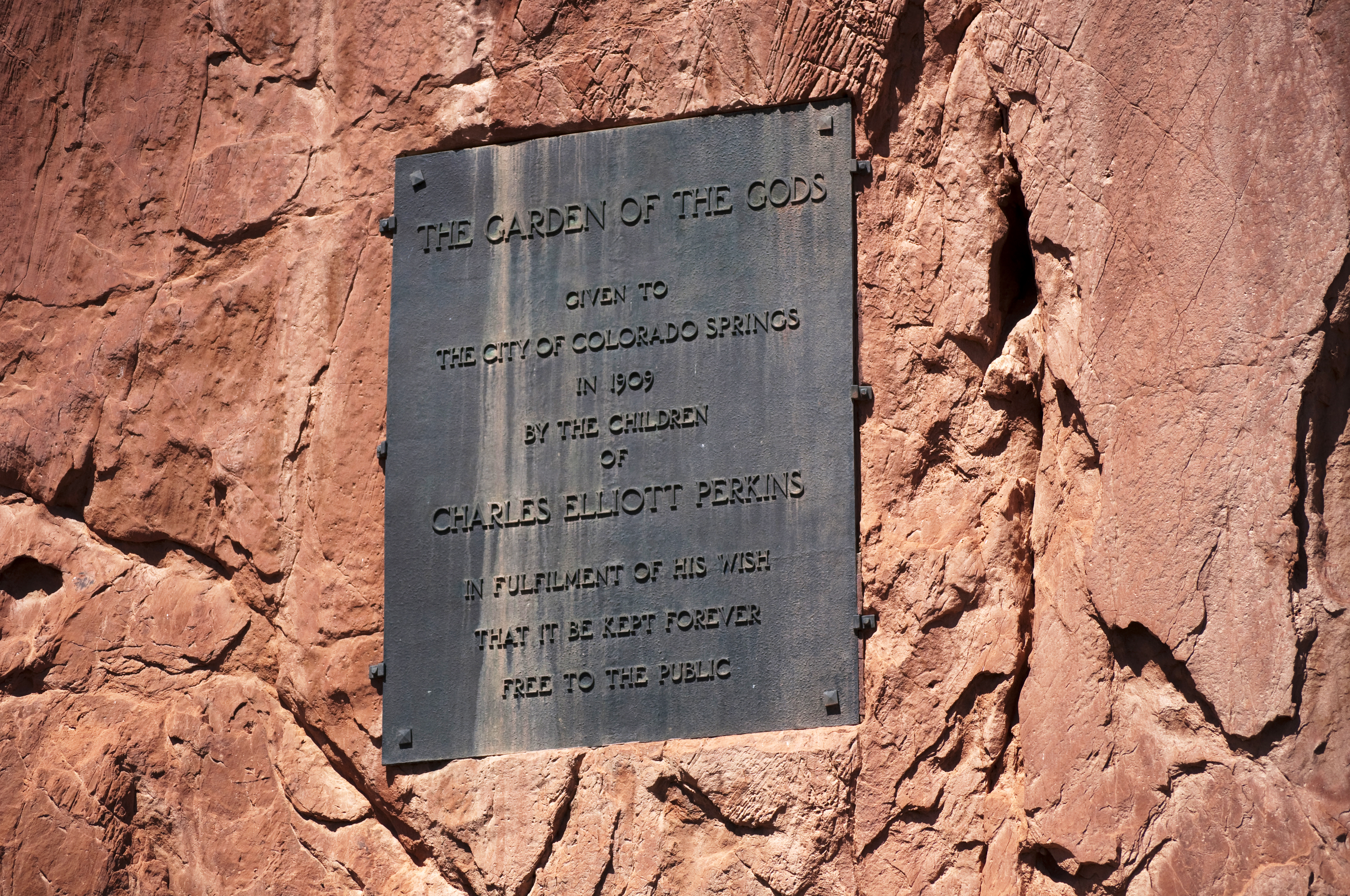 north america, road trip, the west, rocky mountains, garden of the gods, colorado springs, charles elliott perkins